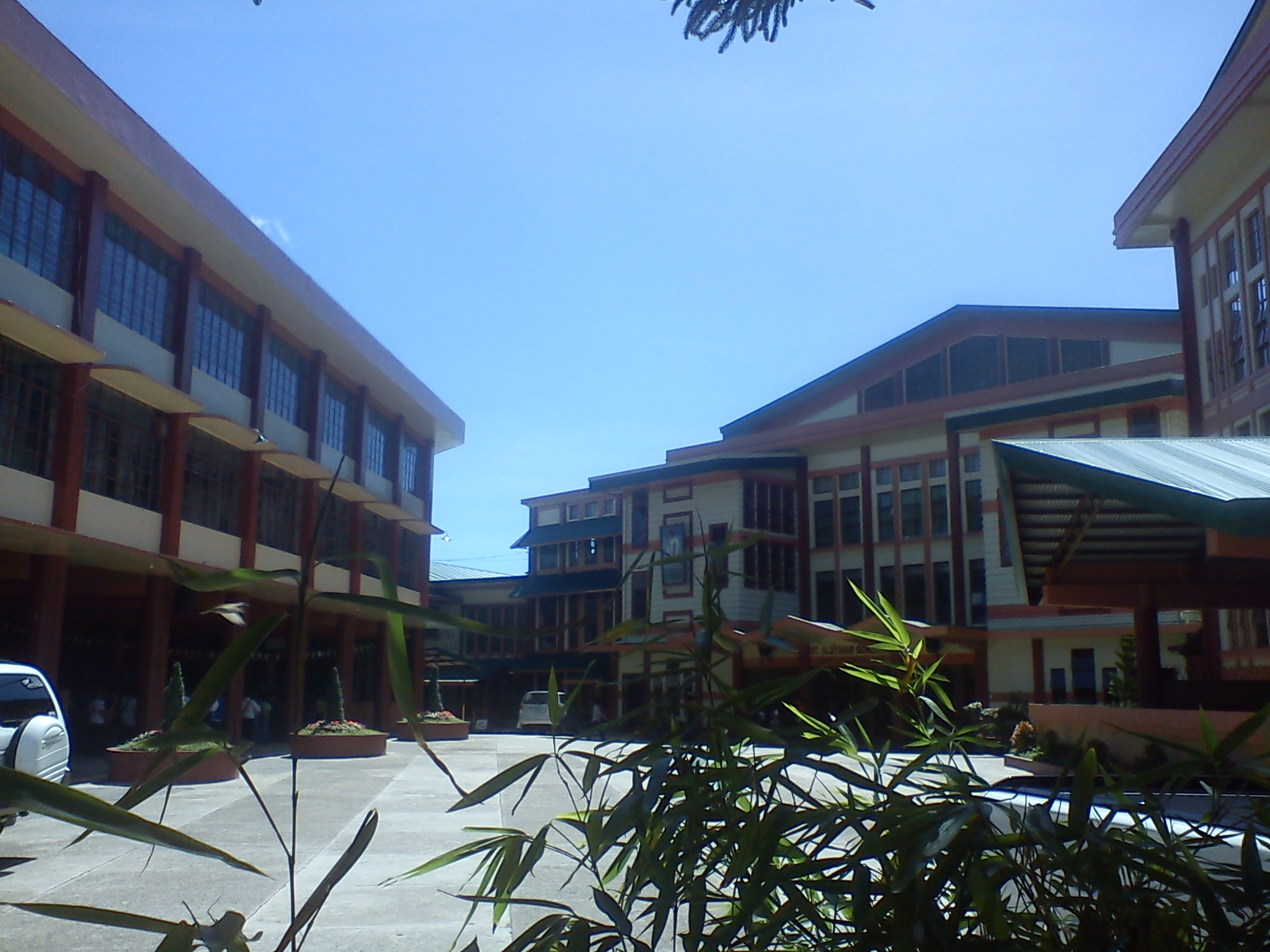 Gonzaga campus of SLU Philippines 2014